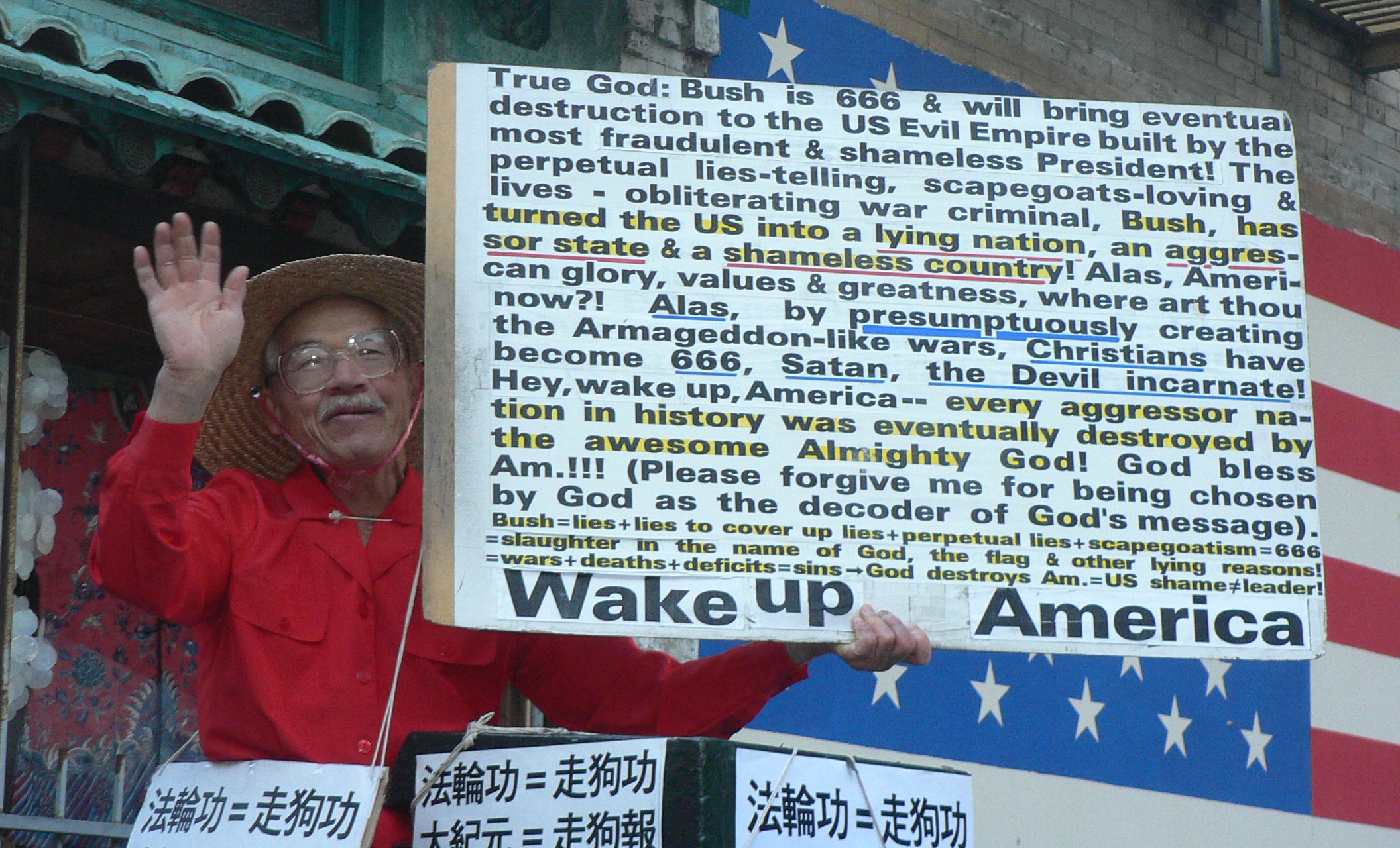 "Soapboxing" in Chinatown, San Francisco, California, USA Copyright © 2006 Mai-Linh Đoàn